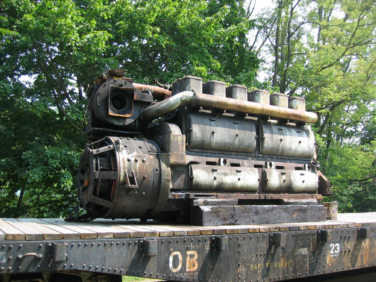 Mcintosh & Seymour six-cylinder railroad locomotive engine. (On a siding at the Cass Mtn. scenic railway in W. Va.)